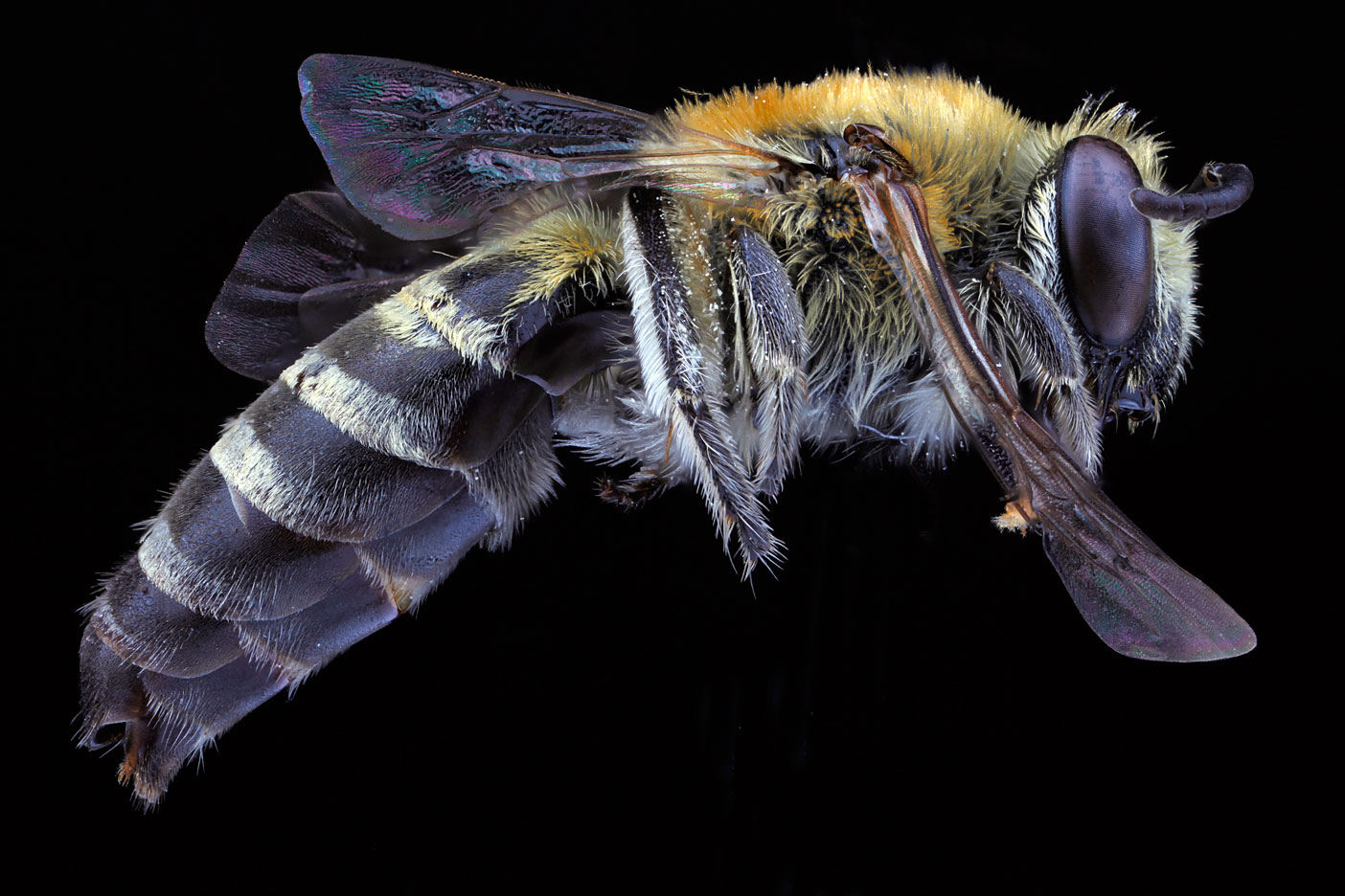 Colletes speculiferus, female, South Carolina